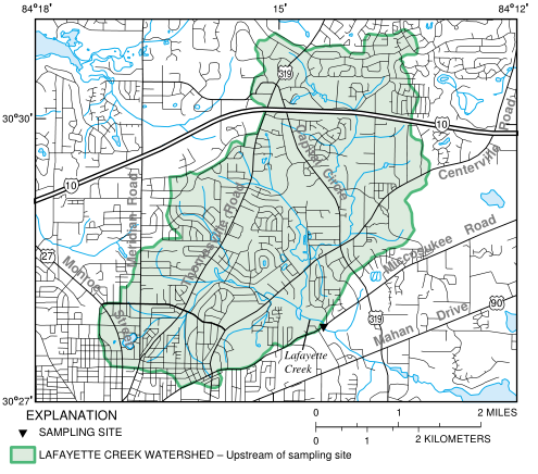 Illustration of the Lafayette Creek watershed in Tallahassee, Florida.